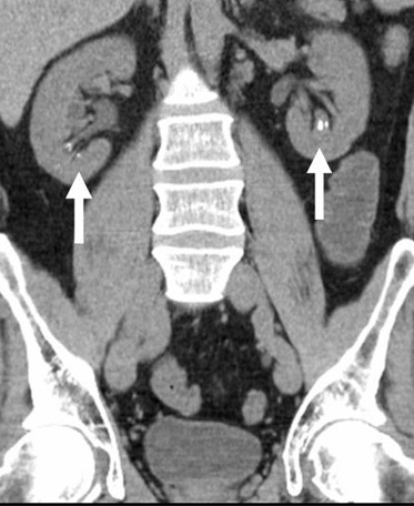 For context, see Computed tomography of the abdomen and pelvis.